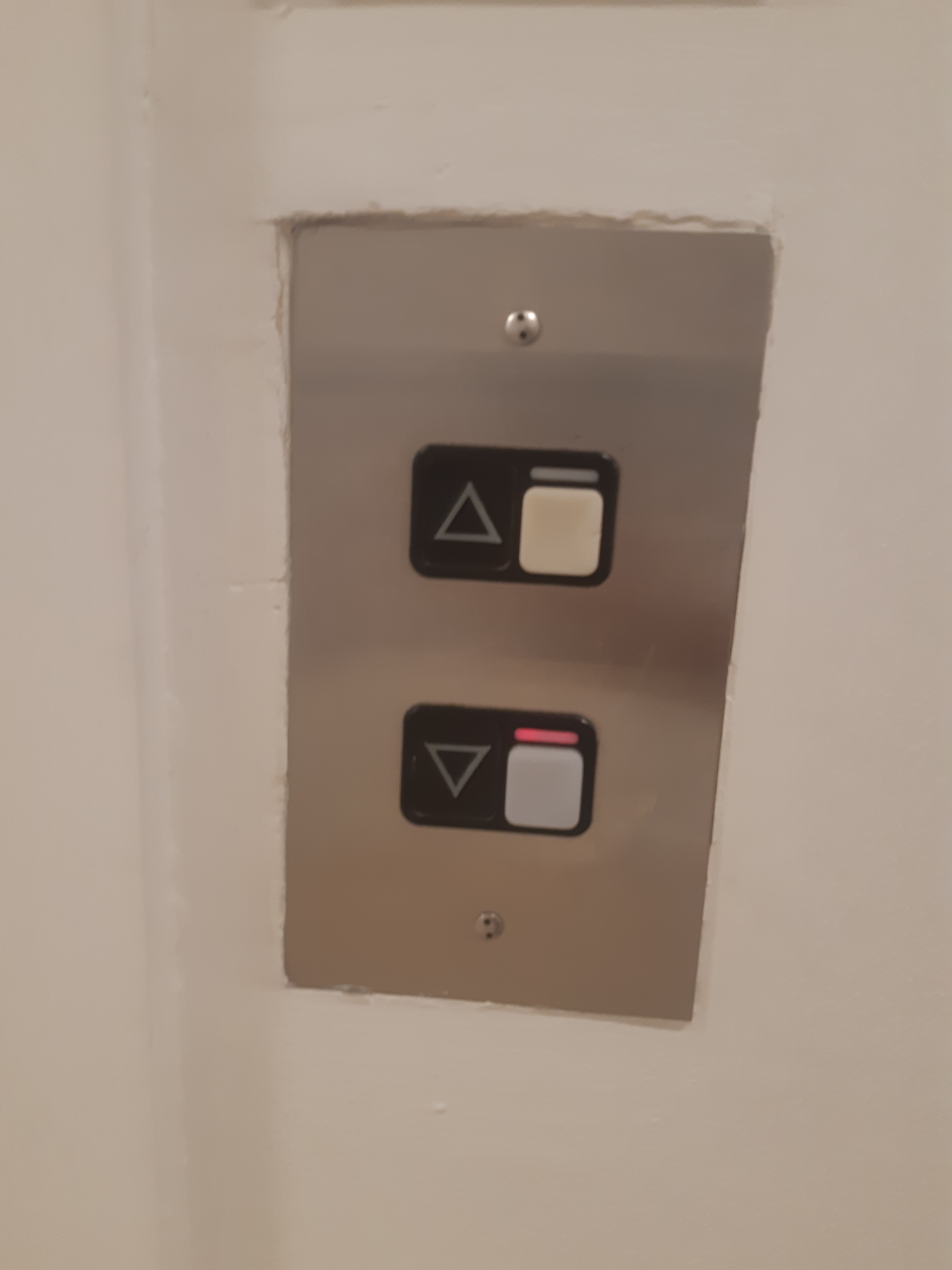 At Macy's Plaza Las Americas